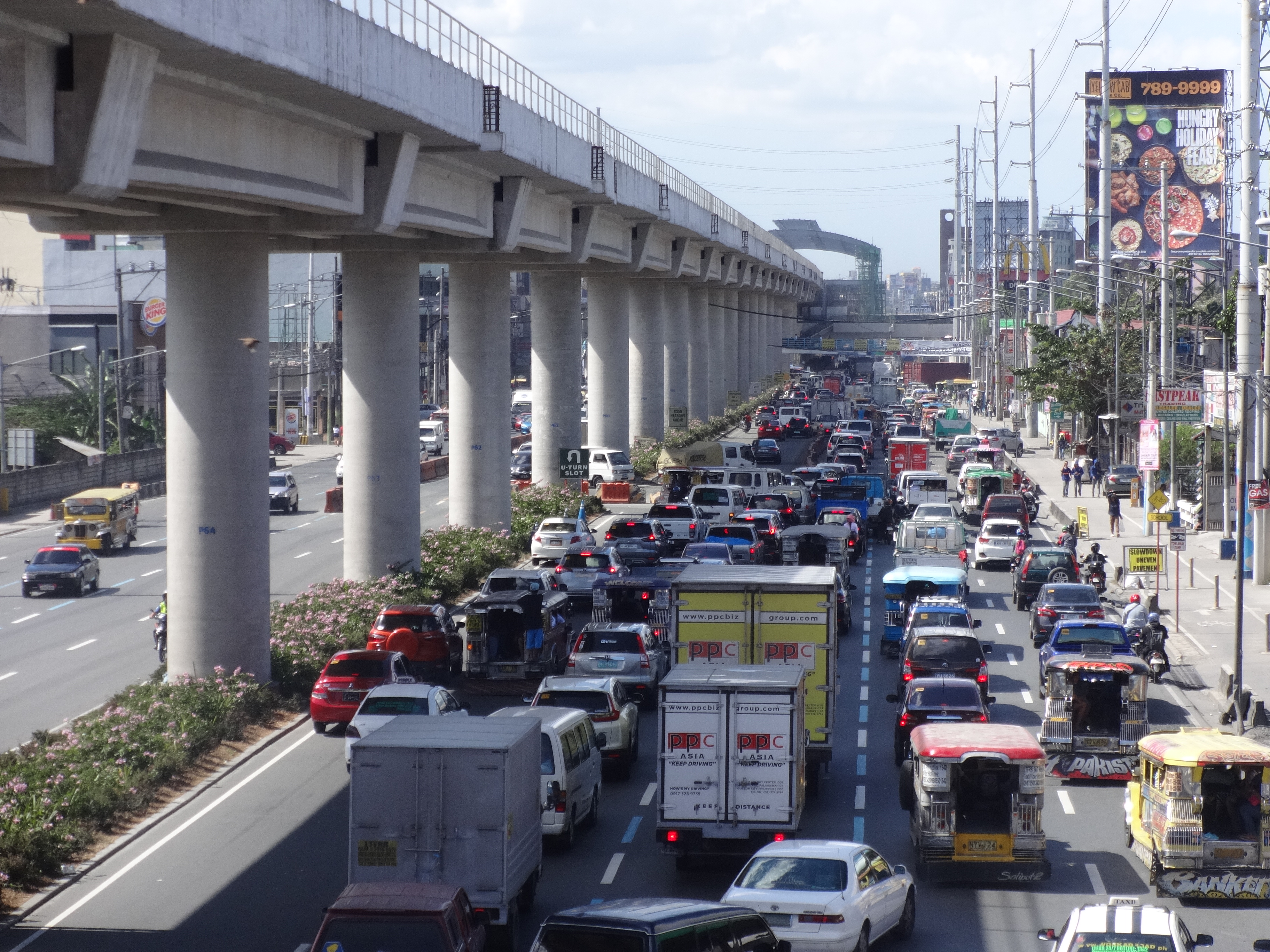 Heavy traffic jam along Marcos Highway in Cainta, Rizal